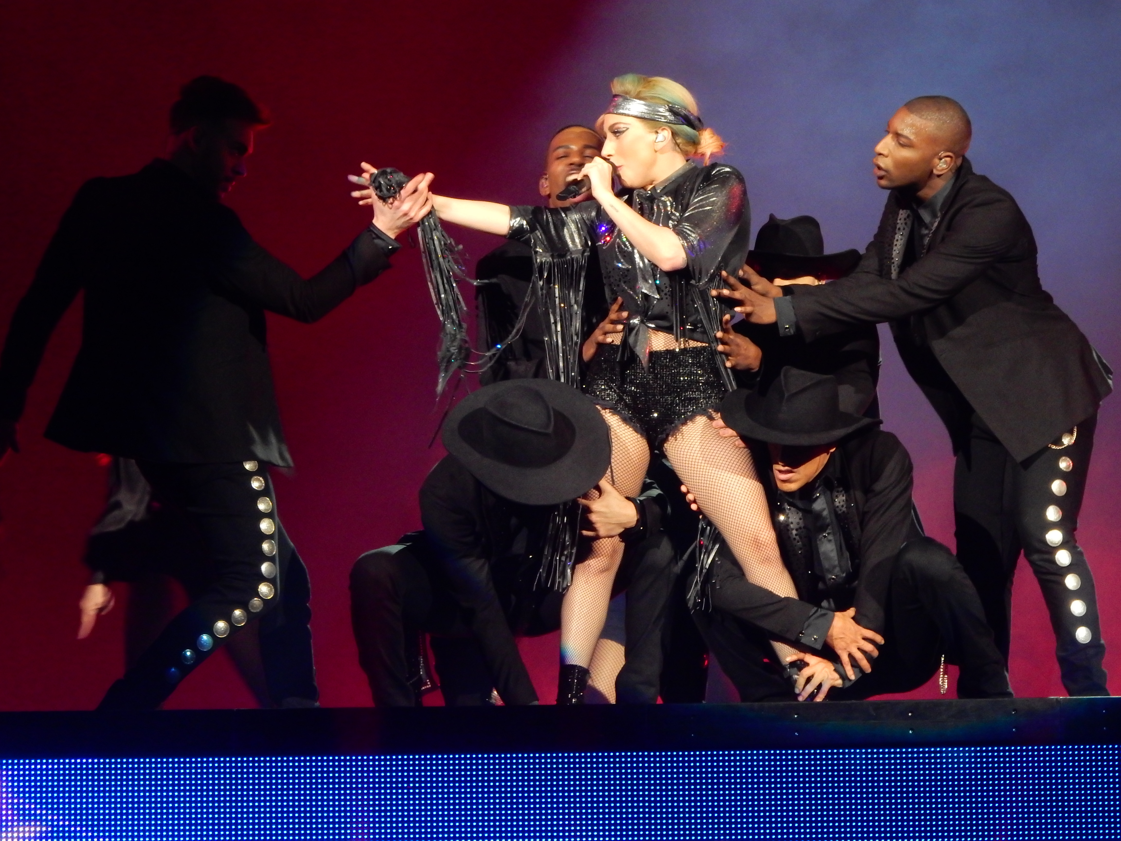 Lady Gaga performing at Arena Birmingham for the Joanne World Tour, January 31st 2018